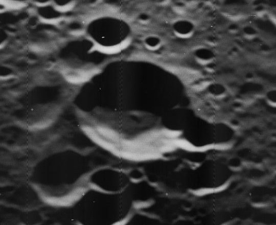 Oblique view of Hatanaka, on the far side of the moon, facing west.